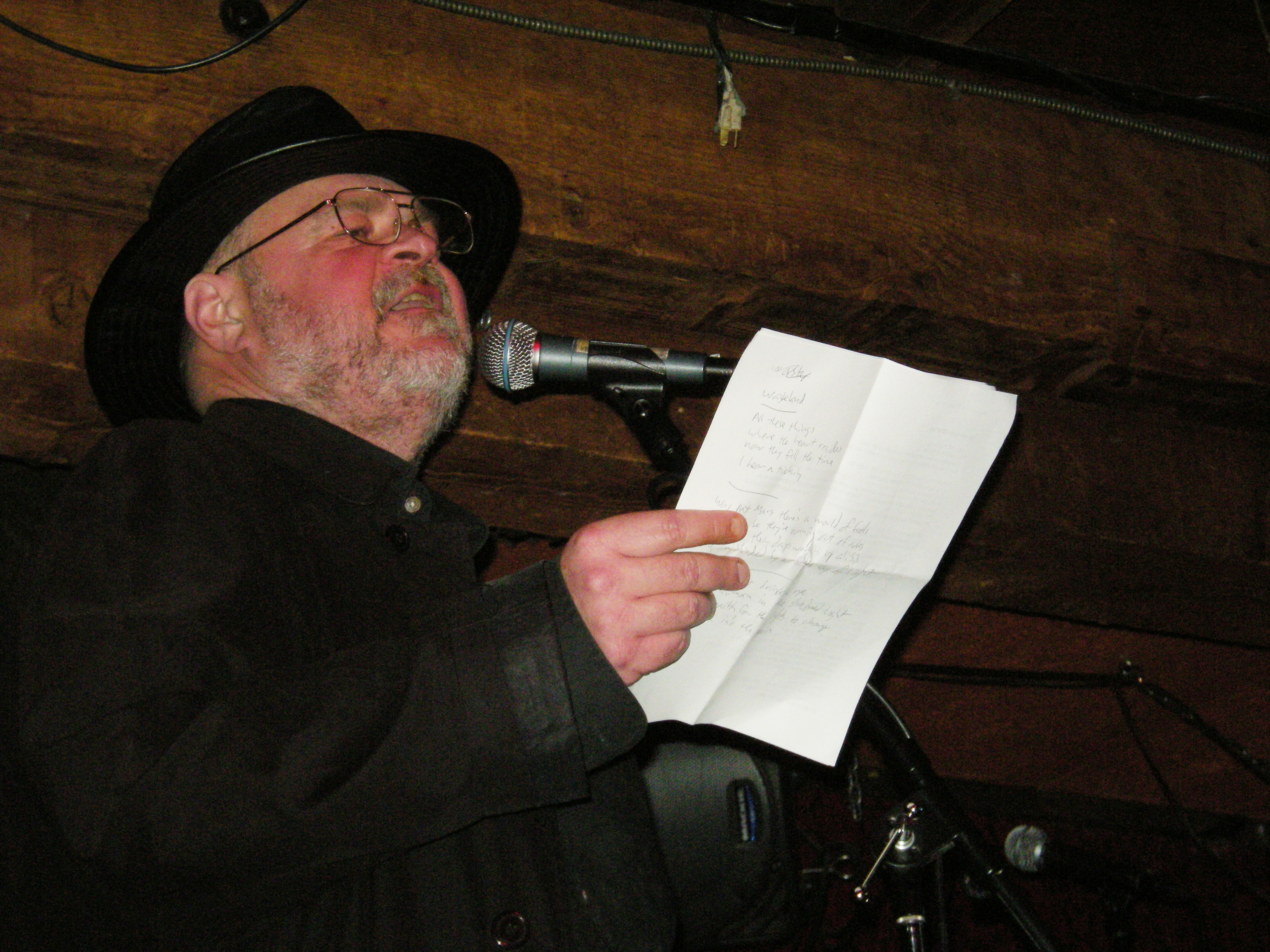 David Thomas performing as part of EMP Pop Conference Night at the Sunset in Seattle's Ballard neighborhood, part of the 2009 Pop Conference, Experience Music Project, Seattle, Washington.